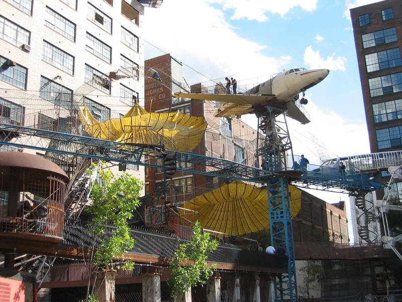 City Museum, St. Louis, Missouri